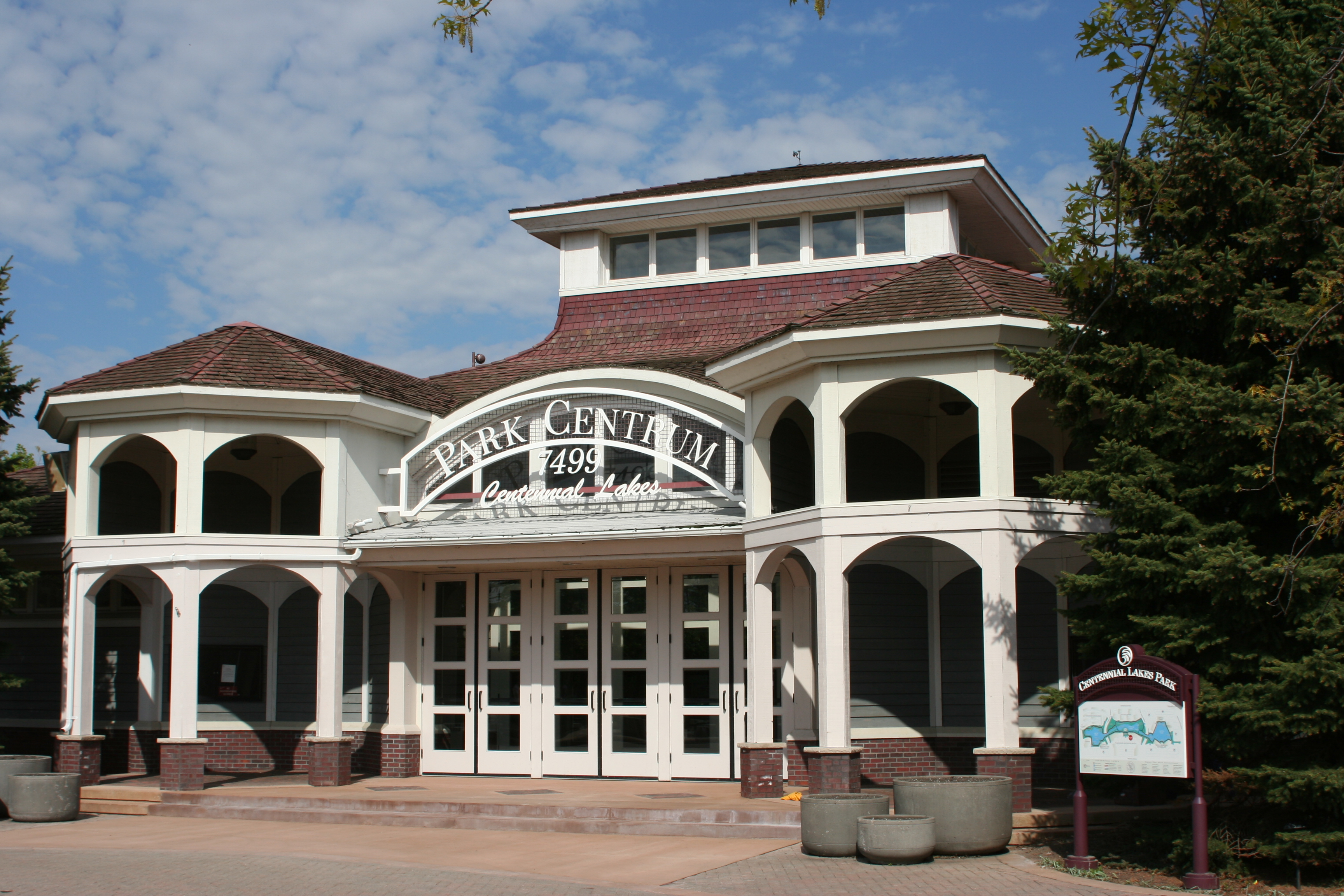 Front exterior view of the Park Centrum building at Centennial Lakes Park in Edina, MN